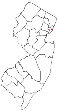 Map of NJ showing Hoboken. Map was modified by Darkcore based on a map generated by data from the NJDEP BGIS [1]. Copyright notice taken from NJDEP BGIS website: Section E. Copyright and Trademark Limitations The State of New Jersey has made the content of these pages available to the public and anyone may view, copy or distribute State information found here without obligation to the State, unless otherwise state on particular material or information to which a restriction on free use may apply. However, the State makes no warranty that materials contained herein are free of Copyright or Trademark claims or other restrictions or limitations on free use or display. Making a copy of such material may be subject to the copyright of trademark laws.